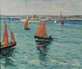 Work by Maxime Maufra